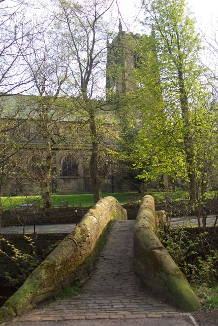 Marsden, West Yorkshire: Mellor Bridge over the River Colne, with St Bartholomew's parish church in the background